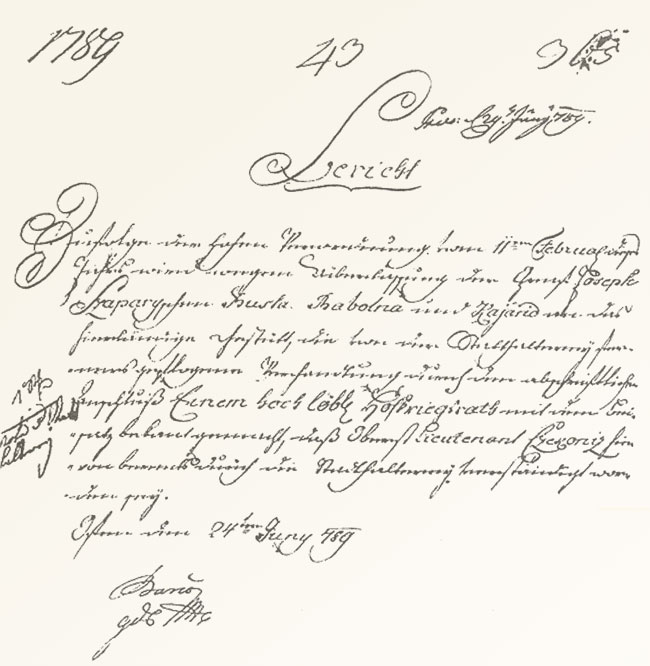 Foundation of Babolna, 24 june 1789.